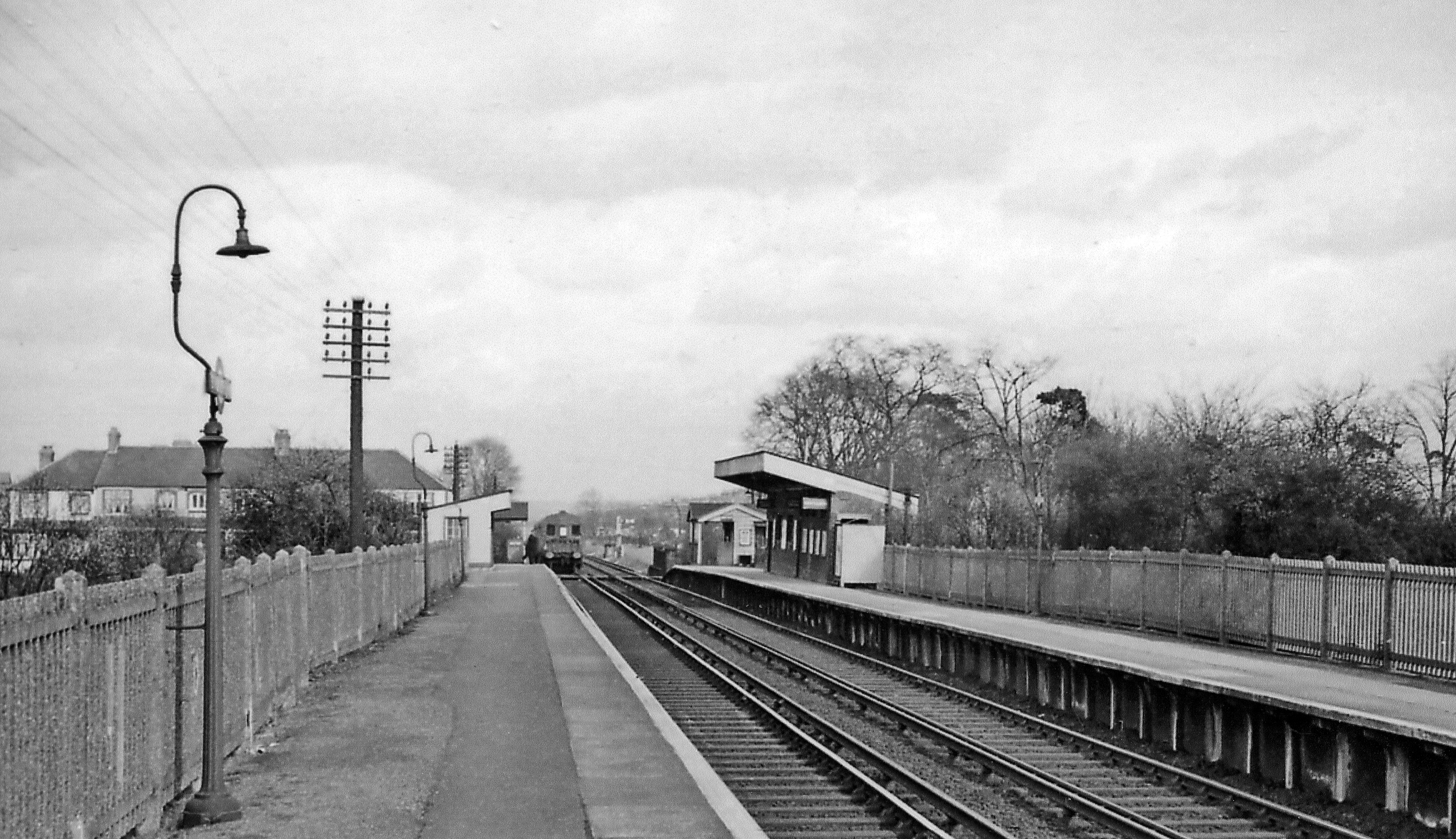 Birkbeck Station. View NE, towards Beckenham Junction; Crystal Palace - Beckenham Junction line. (Now also on Croydon Tramlink).